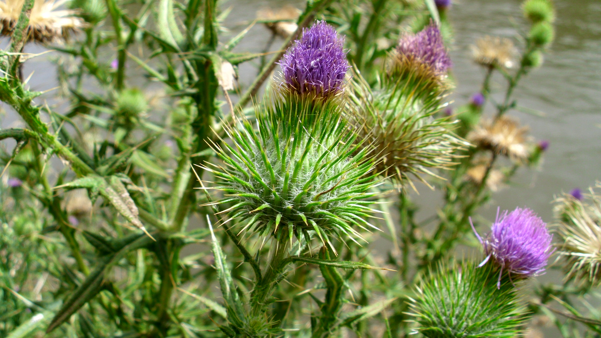 Cirsium vulgare flower on the banks of the Murrumbidgee River in Wagga Wagga, NSW, Australia.